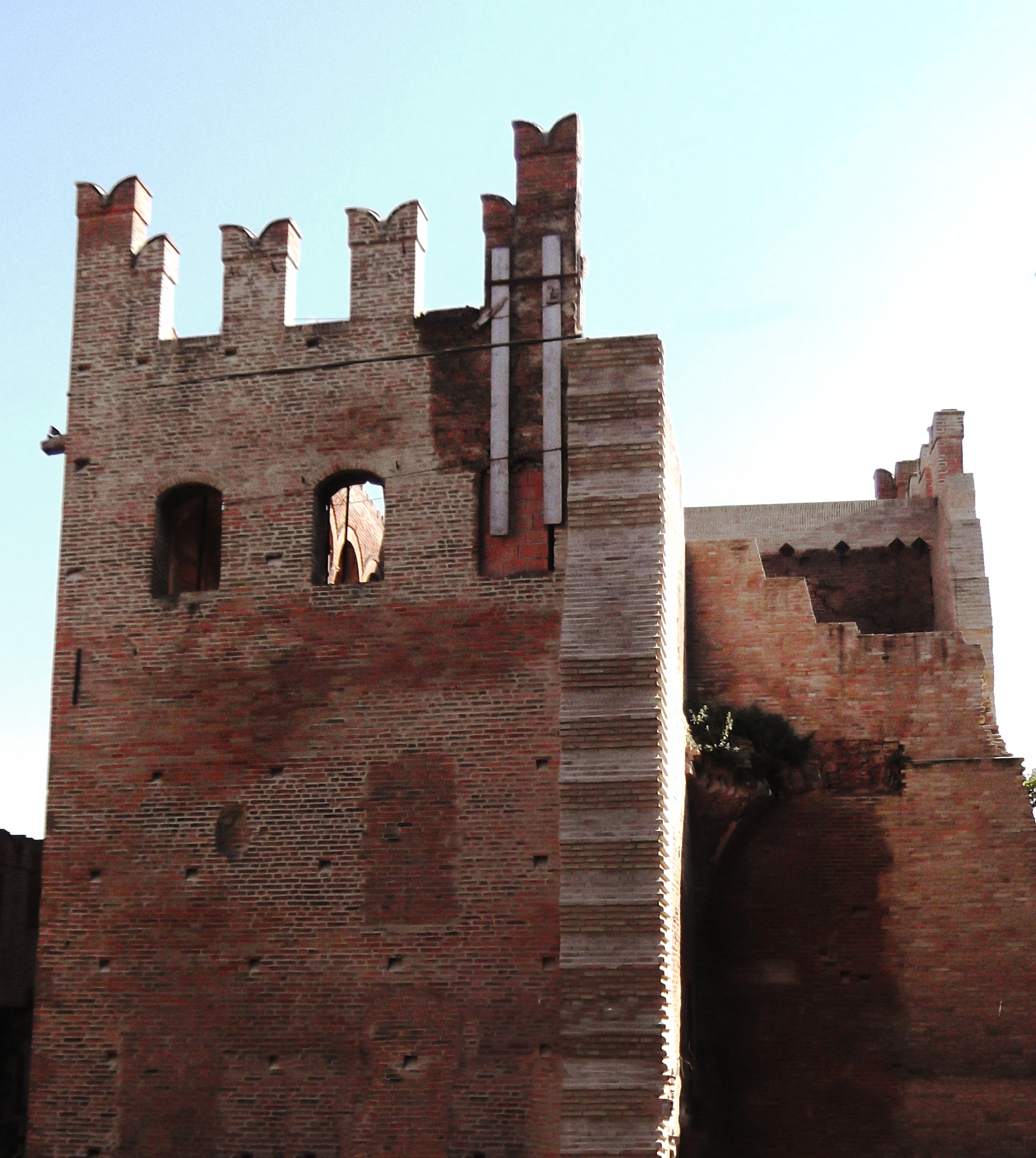 Particular of a damaged tower in the Bentivoglio's castle